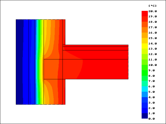 Temperature distribution in the detail wall-floor in our house.